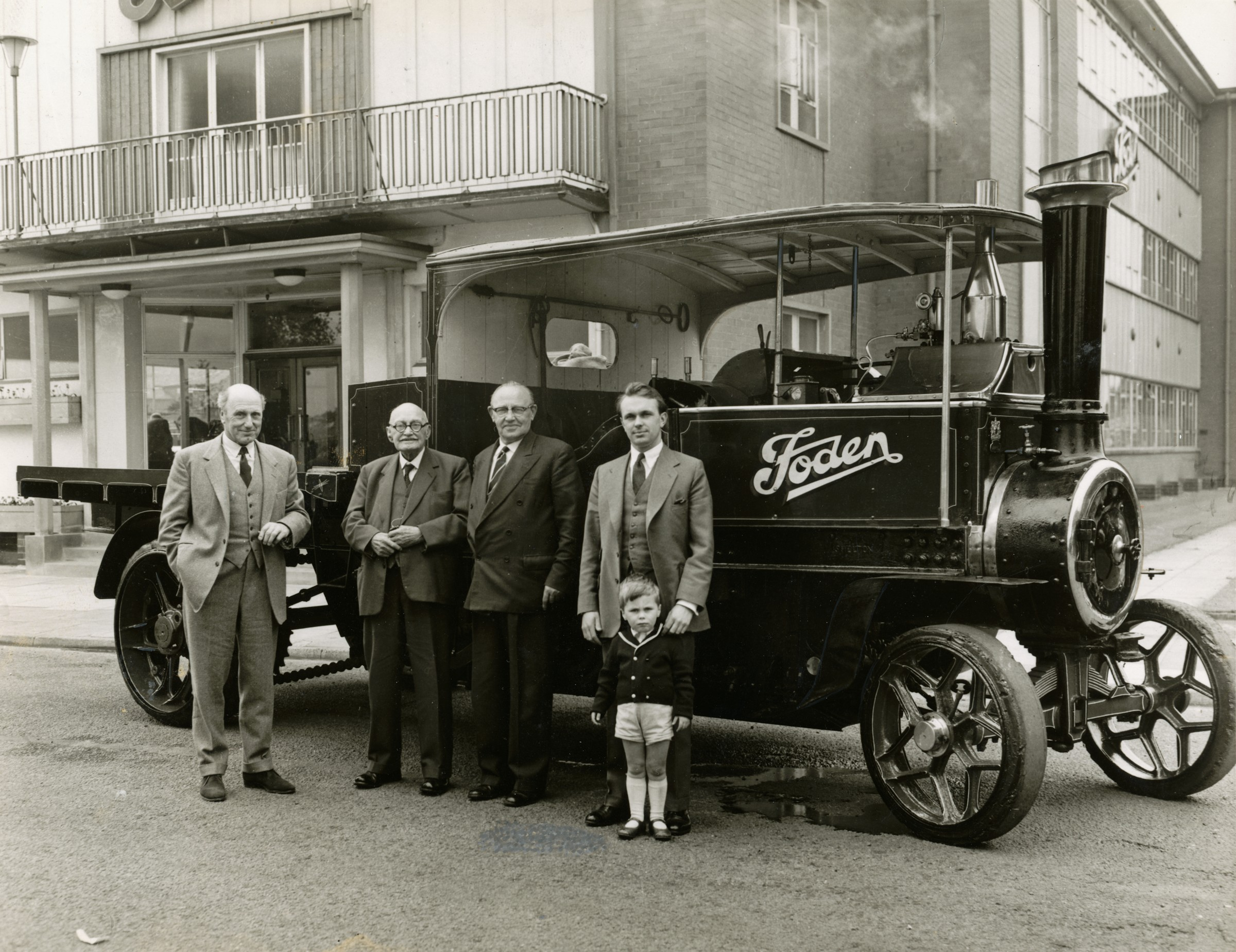 The Foden Family, outside the Foden Trucks factory in Elworth, Sandbach. L to R. [1] James Edwin Foden, son of William Foden. [2] William Foden, son of the the founder Edwin Foden. [3] Reginal Gordon Foden, son of William Foden. [4] David Colville Foden, son of James Edwin Foden. [5] Hugh Foden, son of David Colville Foden. Vehicle: "Pride of Edwin" Works Number 6368. Registered 'M 8118' July 1916 new to The Portsmouth & Gosport Gas, Coke & Light Company. 5 ton Compound engined steam wagon. Now with The Science Museum and housed in Wroughton, Wiltshire. Photo taken around 1960-1962, attributed to the David Bloor archives